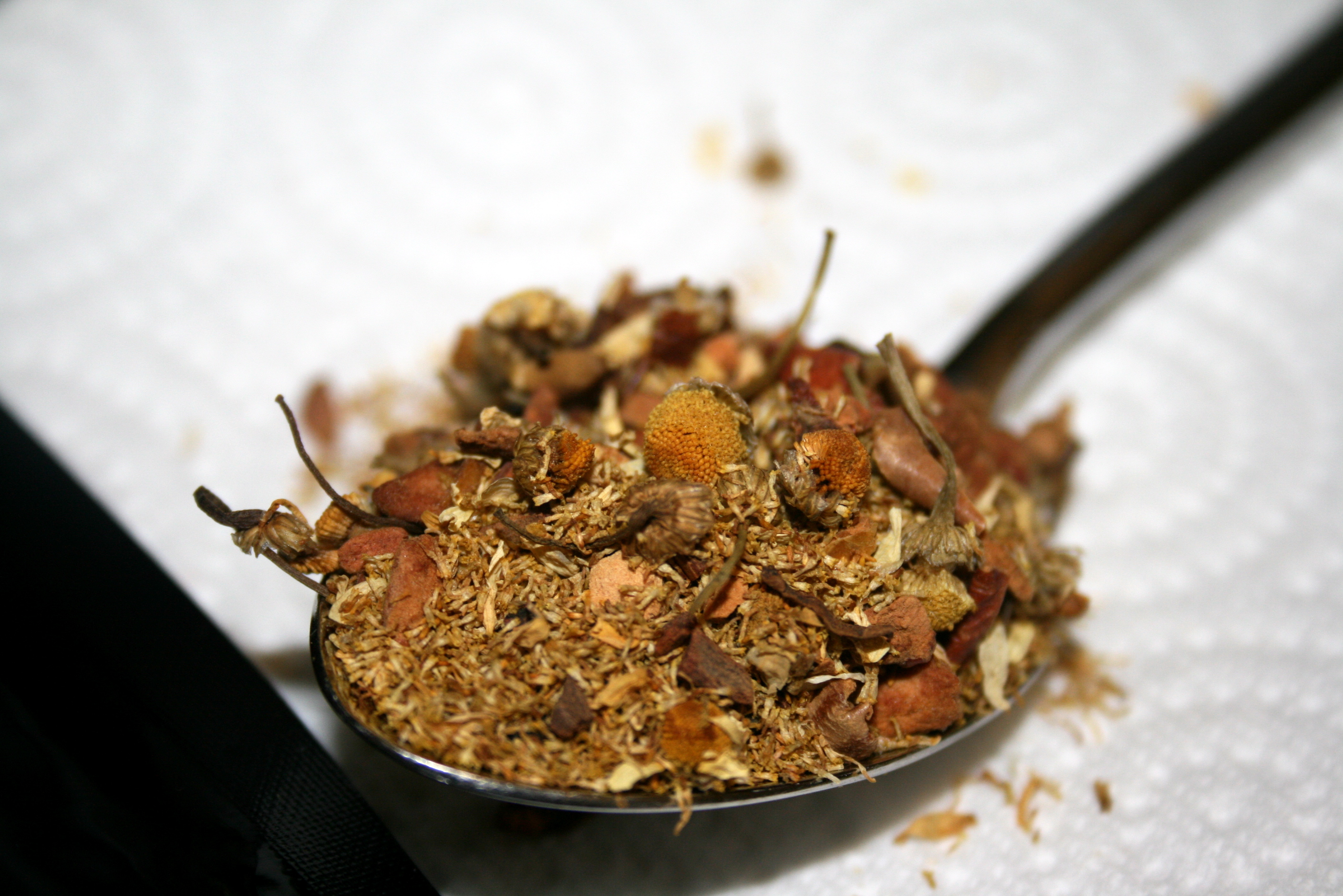 Loose chamomile tea with dried bits of apple and cinnamon